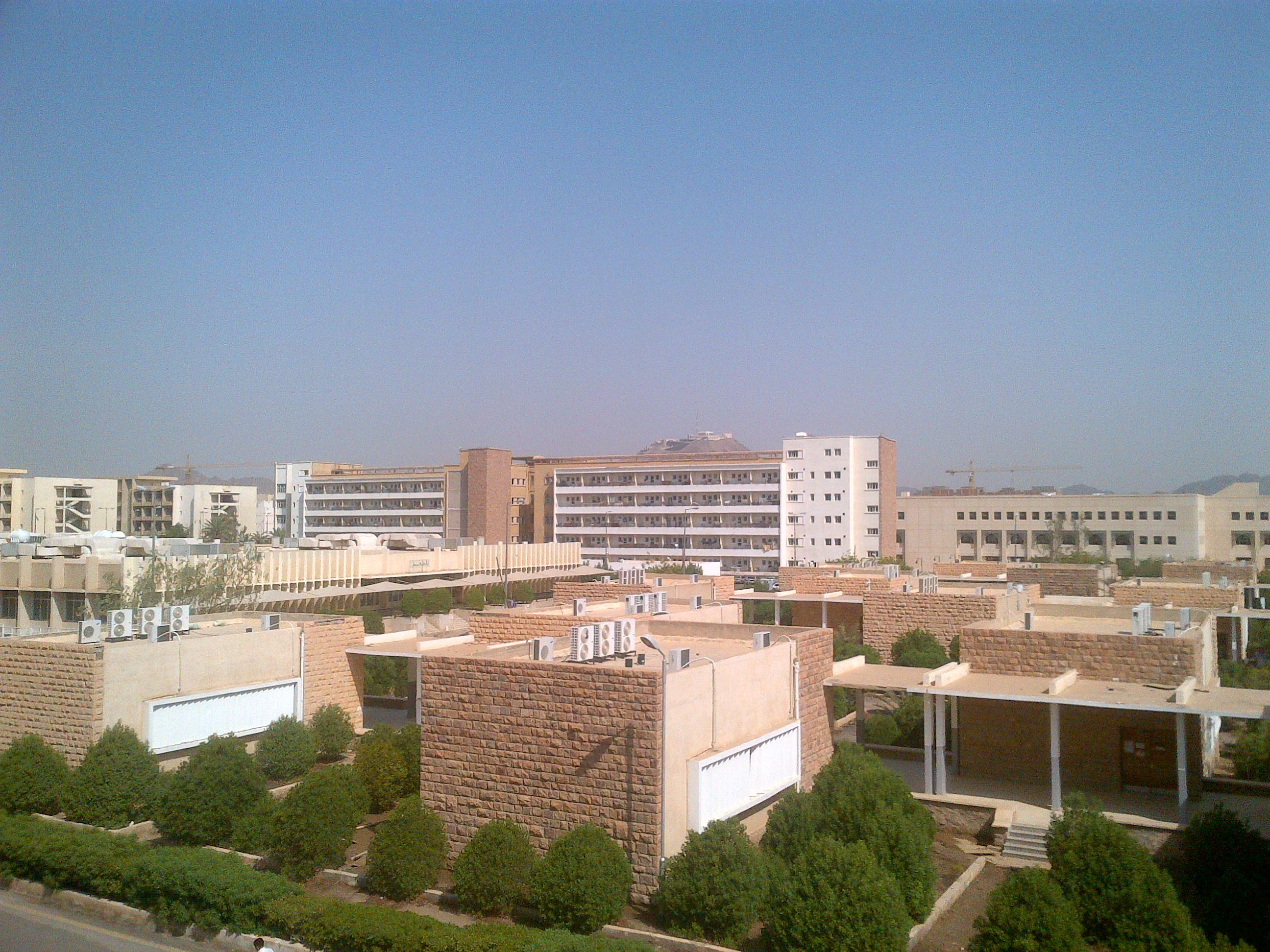 Faculty of Arabic Language, Islamic University of Madinah